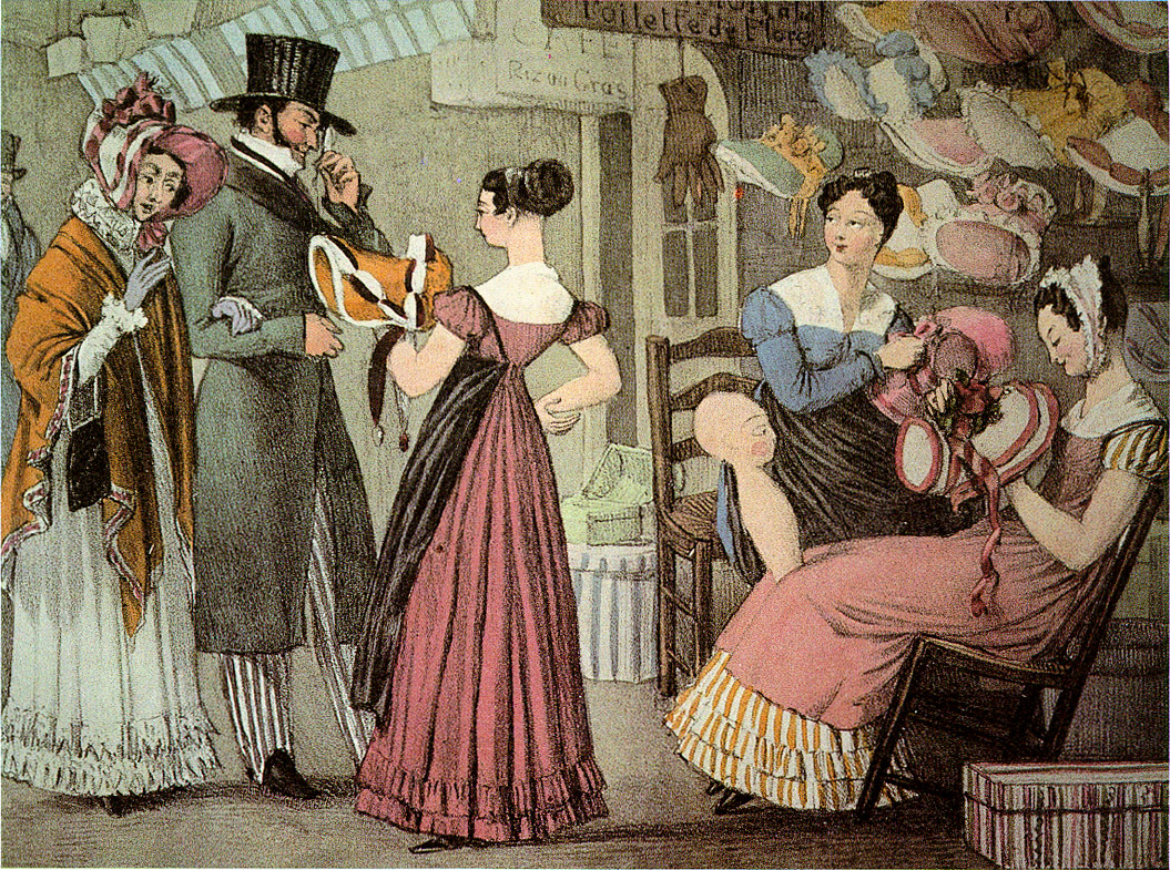 Drawn by Chalon in 1822; the lady (wearing a shawl) is giving directions on the making of her new bonnet, while her husband is ogling the shopgirls (who are wearing black aprons). Despite the move away from the clinging quasi-Grecian styles to a more stiffened conical silhouette, the seated woman isn't wearing so many layers of petticoats that she can't grip her bonnetmaker's dummy firmly between her knees.